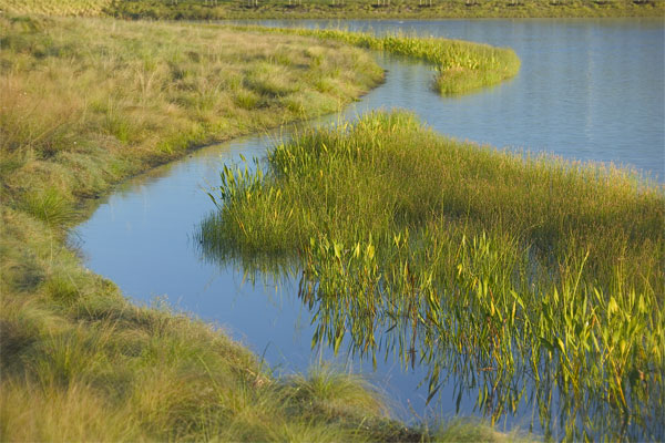 Marsh